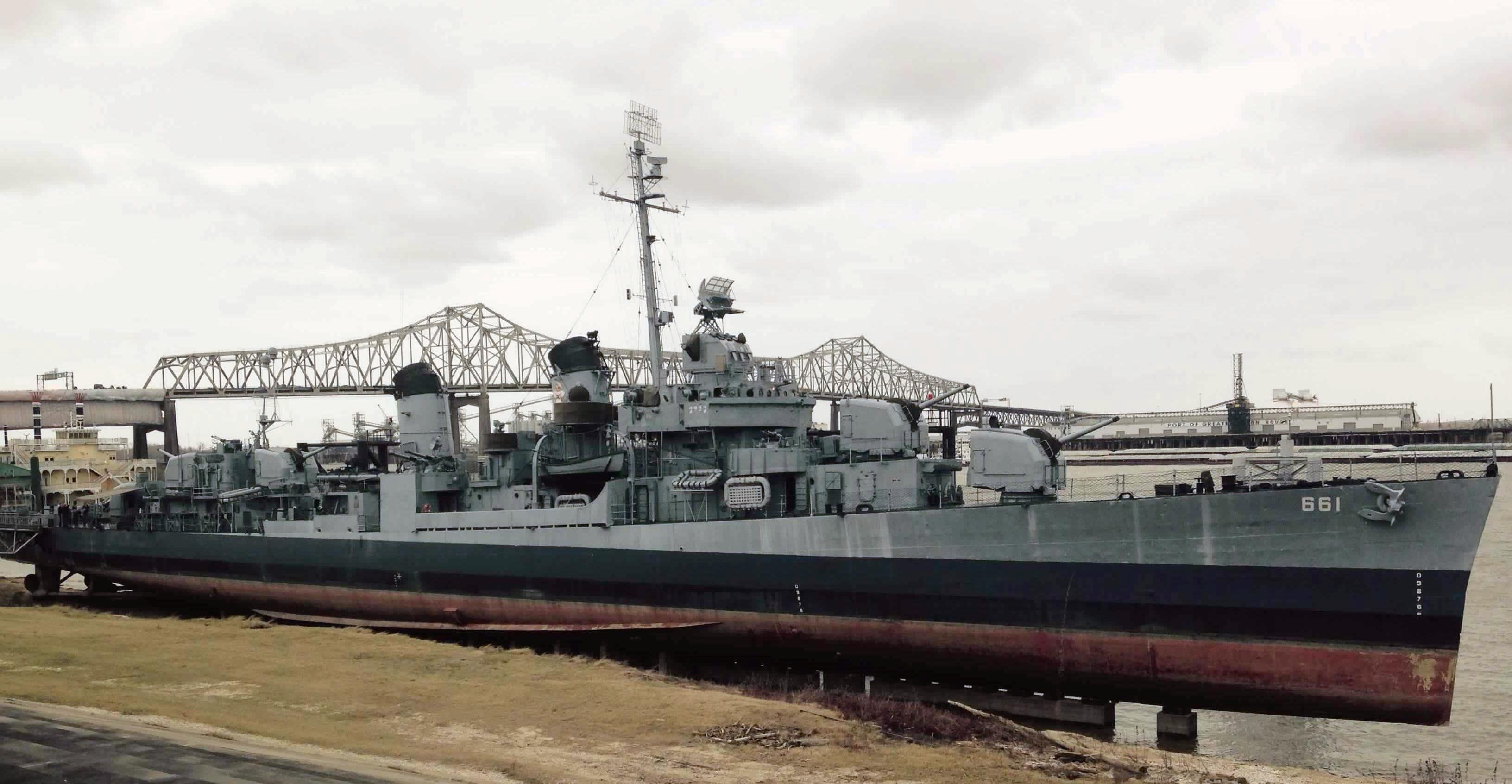 The former U.S. Navy destroyer USS Kidd (DD-661) on its dry-dock platform in Baton Rouge, Louisiana (USA), on 26 February 2015.